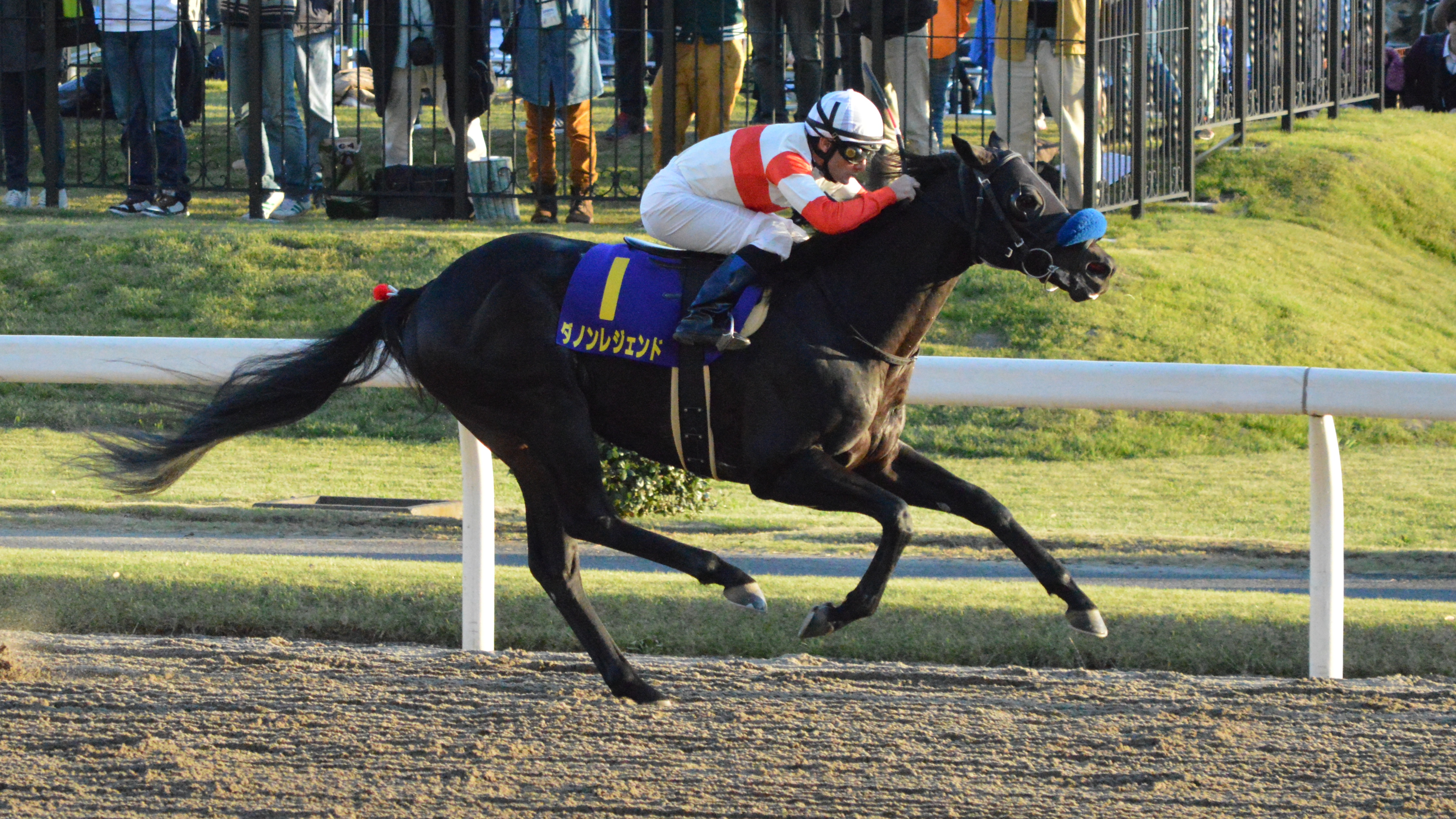 Japanese race horse Danon Legend at Kawasaki racecourse. Kawasaki (JPN) 3 Nov 2016JBC Sprint (Local Grade 1) (Dirt) (3yo+) 7f Muddy RankHorse NameOddsAgeWgtTrainerJockey1stDanon Legend (USA) 43/10H69-0Akira MurayamaMirco Demuro2ndBest Warrior (USA) 9/10FH69-0Sei IshizakaKeita TosakiOthers are omitted. (12 horses entered in a race.)